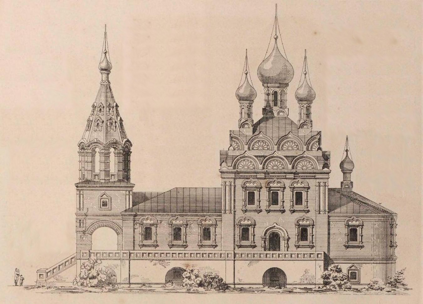 Church in the village of Spas-Zagorje Maloyaroslavets county